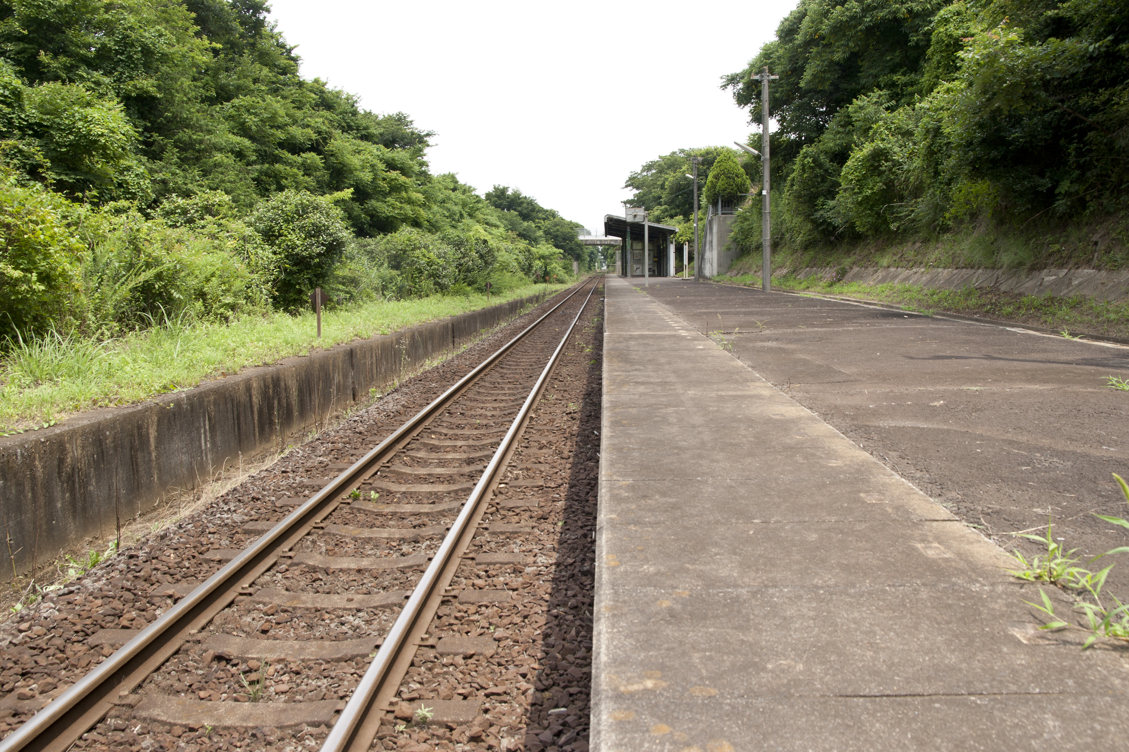 Tokushuku Station in Hokota City, Ibaraki Prefecture, Japan